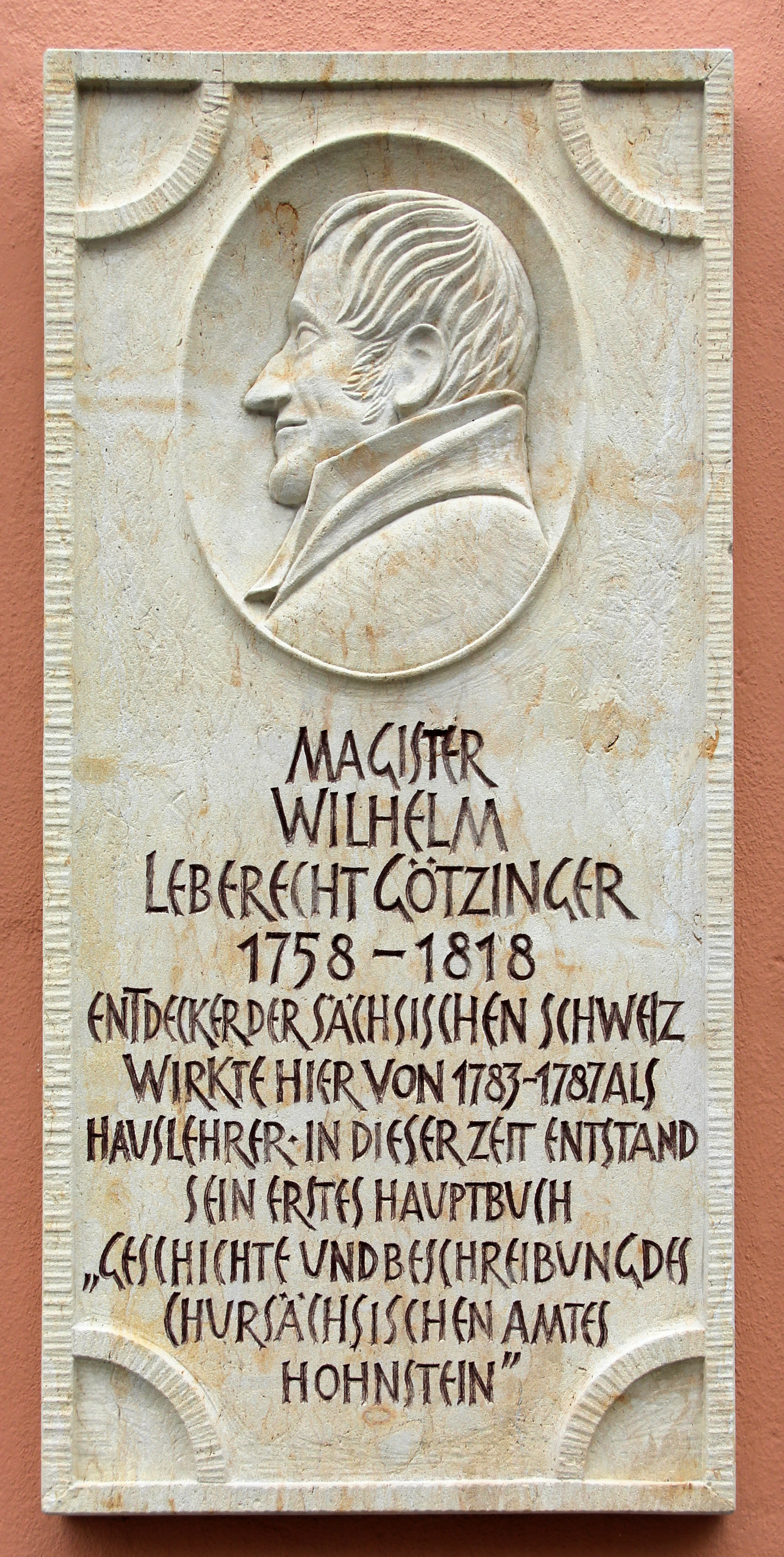 Memorial plaque, Wilhelm Leberecht Götzinger, Markt, Hohnstein (Sächsische Schweiz), Germany